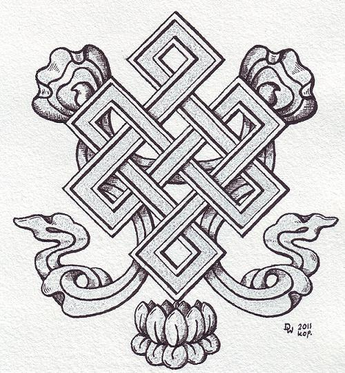 Hand copy of well-known graphic called endless knot.